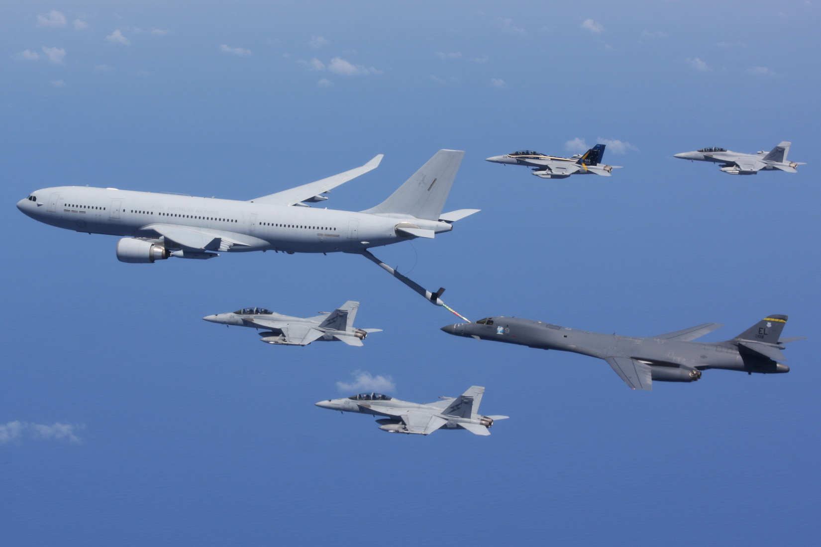 A RAAF KC-30A Multi-role Tanker Transport from RAAF Base Amberley provided refuelling operations for USAF B-1B Lancers in addition to RAAF F/A-18F Super Hornets and E/A-18G Growlers during Exercise Lightning Focus. The B-1B Lancers’ participation in this exercise was part of the Enhanced Air Cooperation program, which aims to increase the interoperability between Australia and the United States.